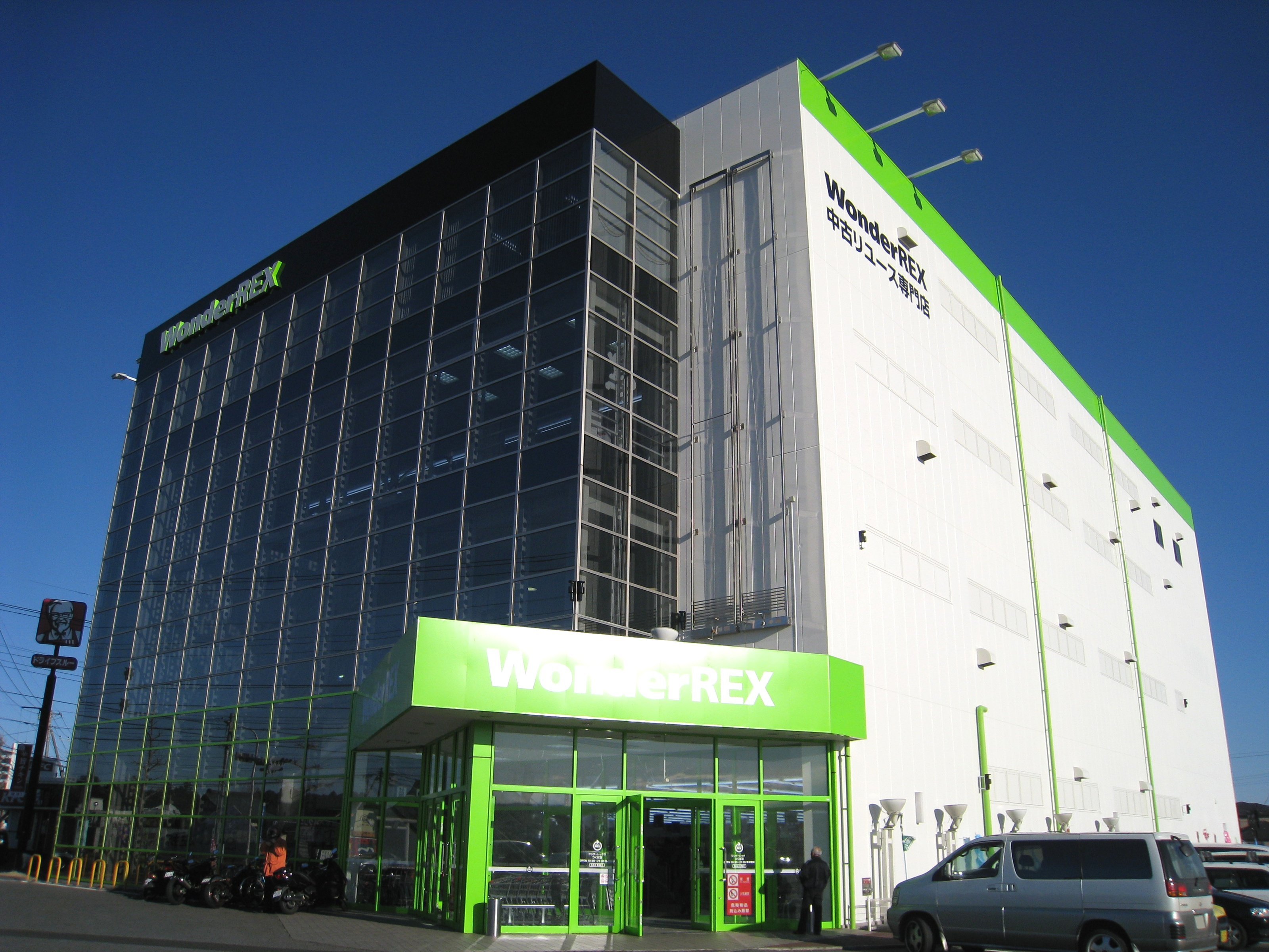 Exterior of Tsukuba WonderREX, is second-hand shop in Tsukuba City, Ibaraki Prefecture, this photo shoot on January 5, 2010.